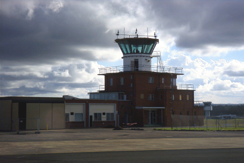 Former Naval Air Station H.M.A.S. Albatross control tower, demolished circa 2000. This was a post-WWII installation, since replaced by a taller tower on the airfield's western perimeter. The original tower's glass cupola is retained in the collection of the nearby Naval Aviation Museum.